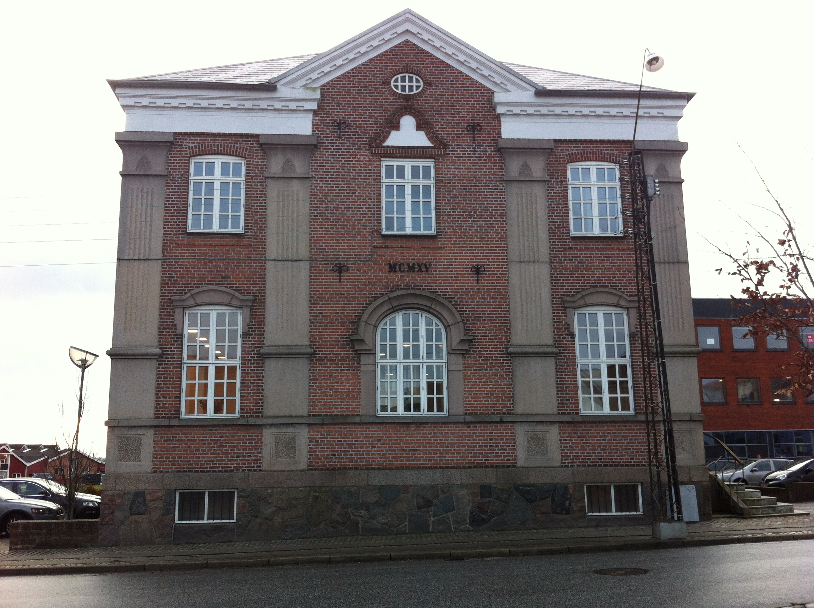 Hadsund Bank building side. The building is located on Main Street in town.